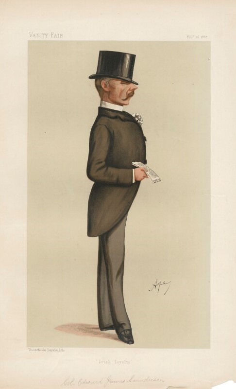 Statesmen No.513: Caricature of Col Edward James Saunderson MP. Caption reads: "Irish loyalty"